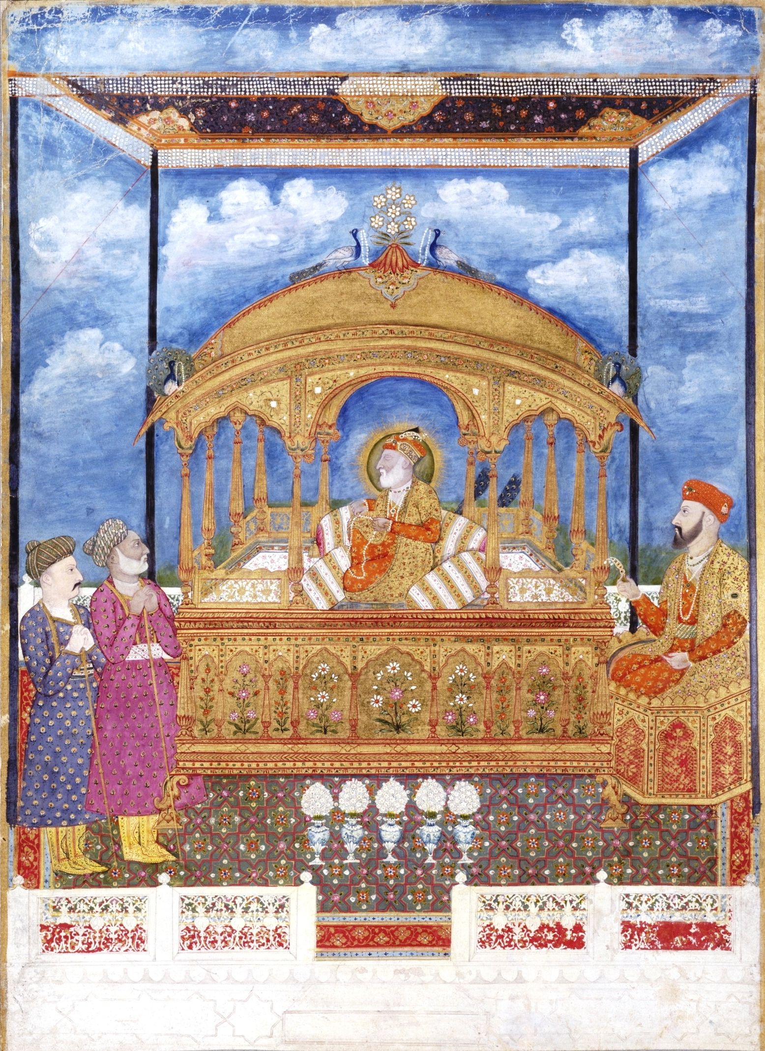 Shah Alam II, the blind Mughal Emperor, seated on a golden throne in Delhi